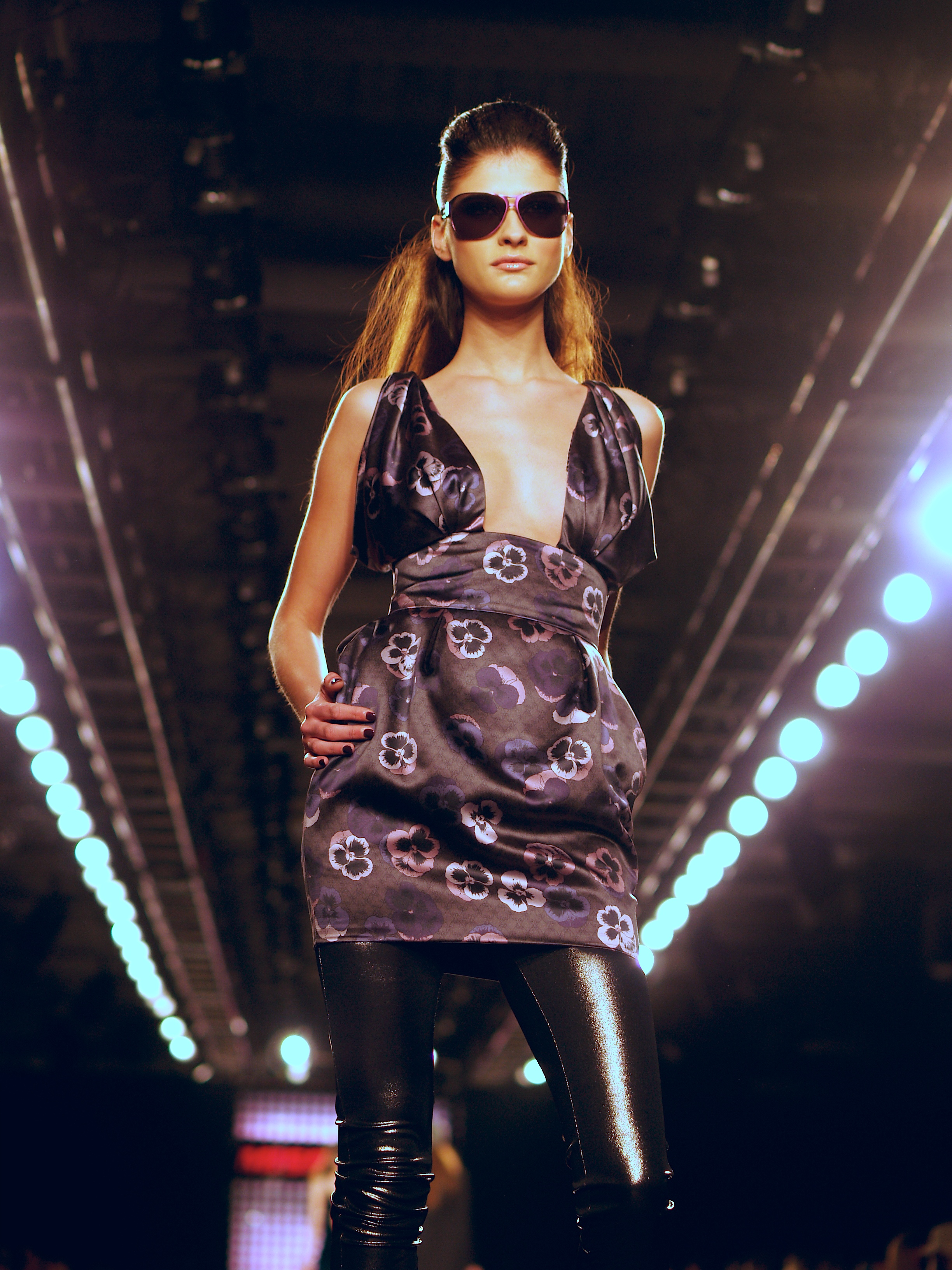 Katarina Ivanovska modeling for Miss Sixty, Fall 2007 New York Fashion Week.